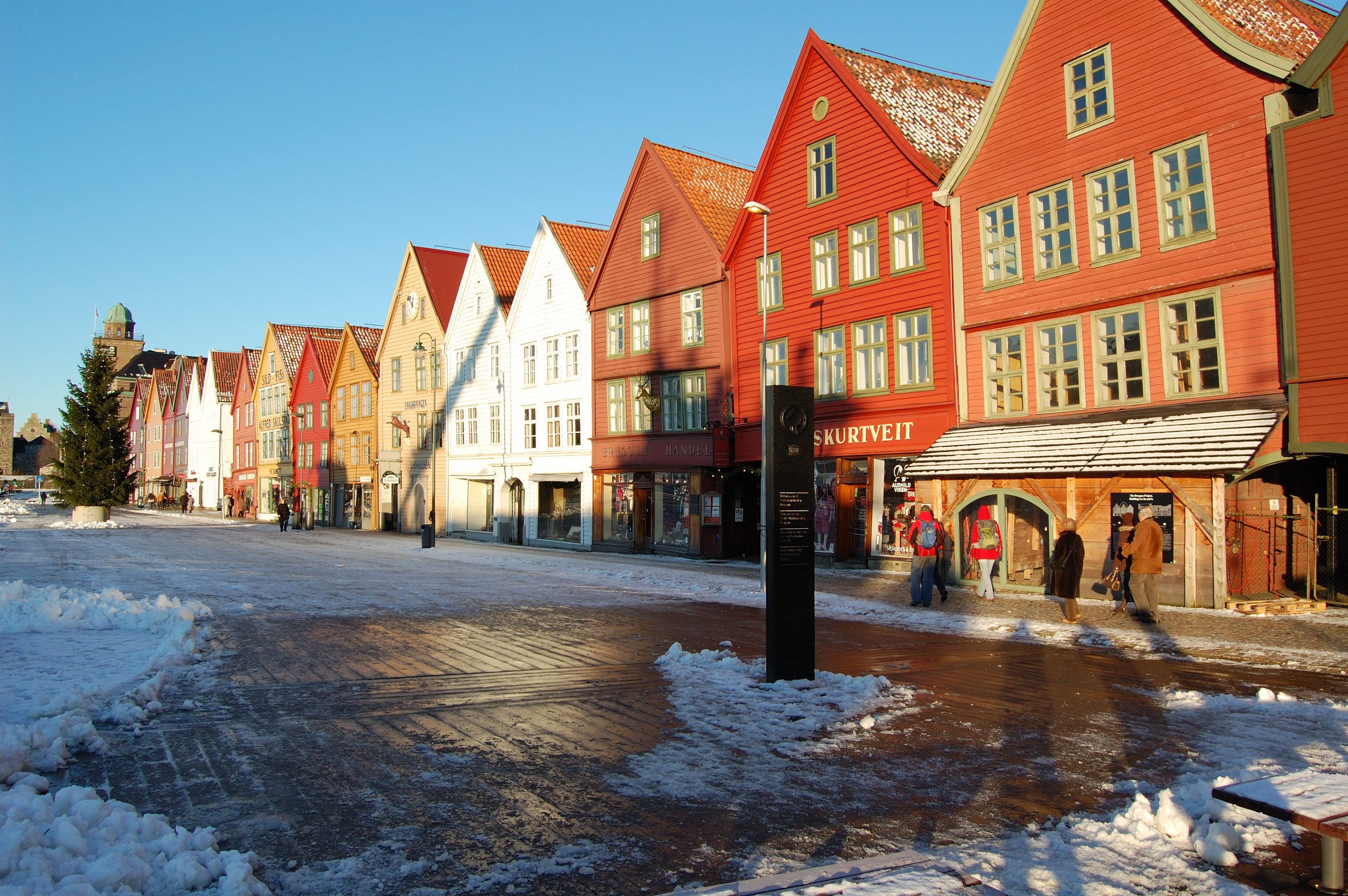 Bryggen in Bergen, Norway.